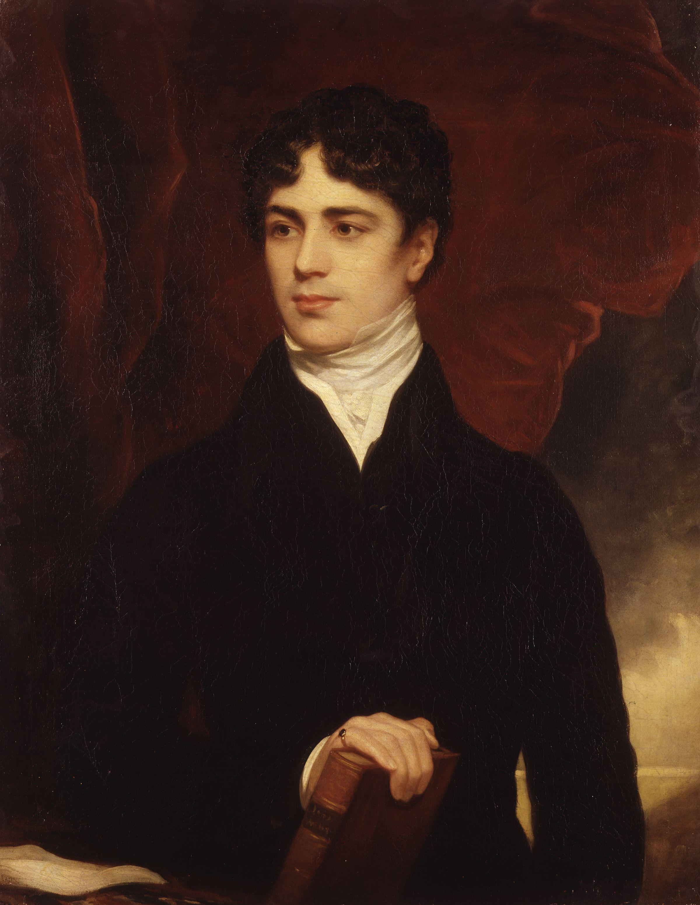 John George Lambton, 1st Earl of Durham, by Thomas Phillips (died 1845). All images in this batch have been confirmed as author died before 1939 according to the official death date listed by the NPG.